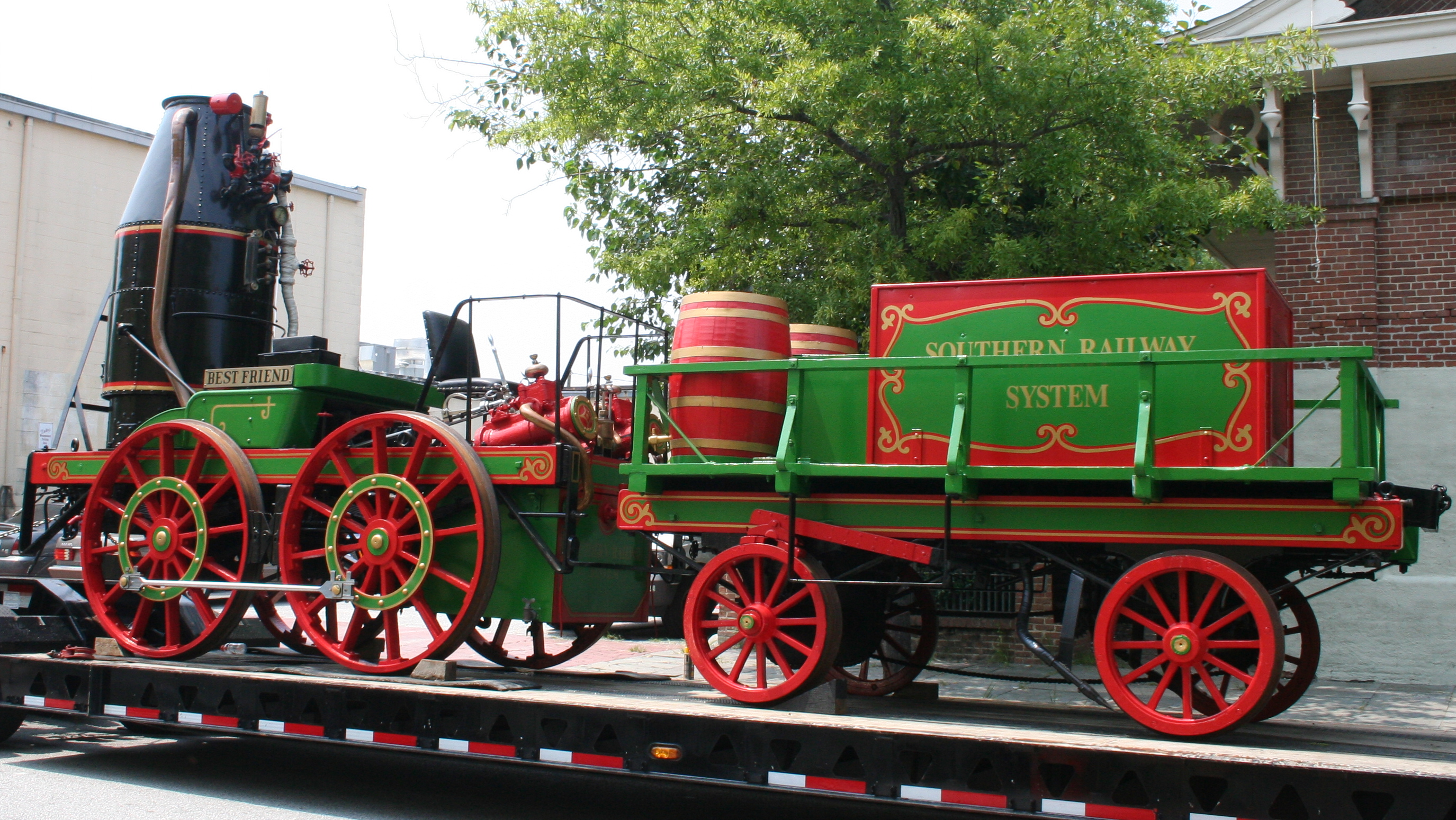 The Best Friend is loaded on a truck in Charleston on August 6, 2007 for transfer to Norfolk Southern in Atlanta